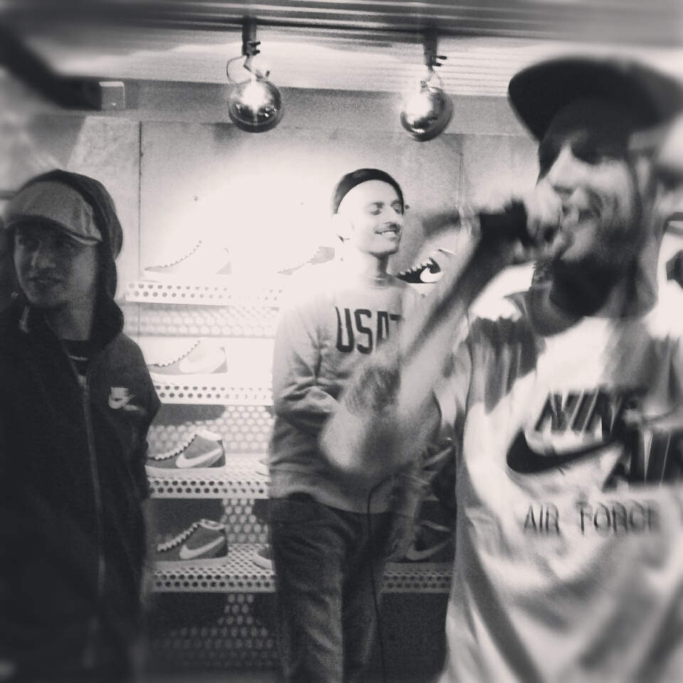 Italian rappers Kiave, Ghemon and Clementino pictured during a live show in Milan.